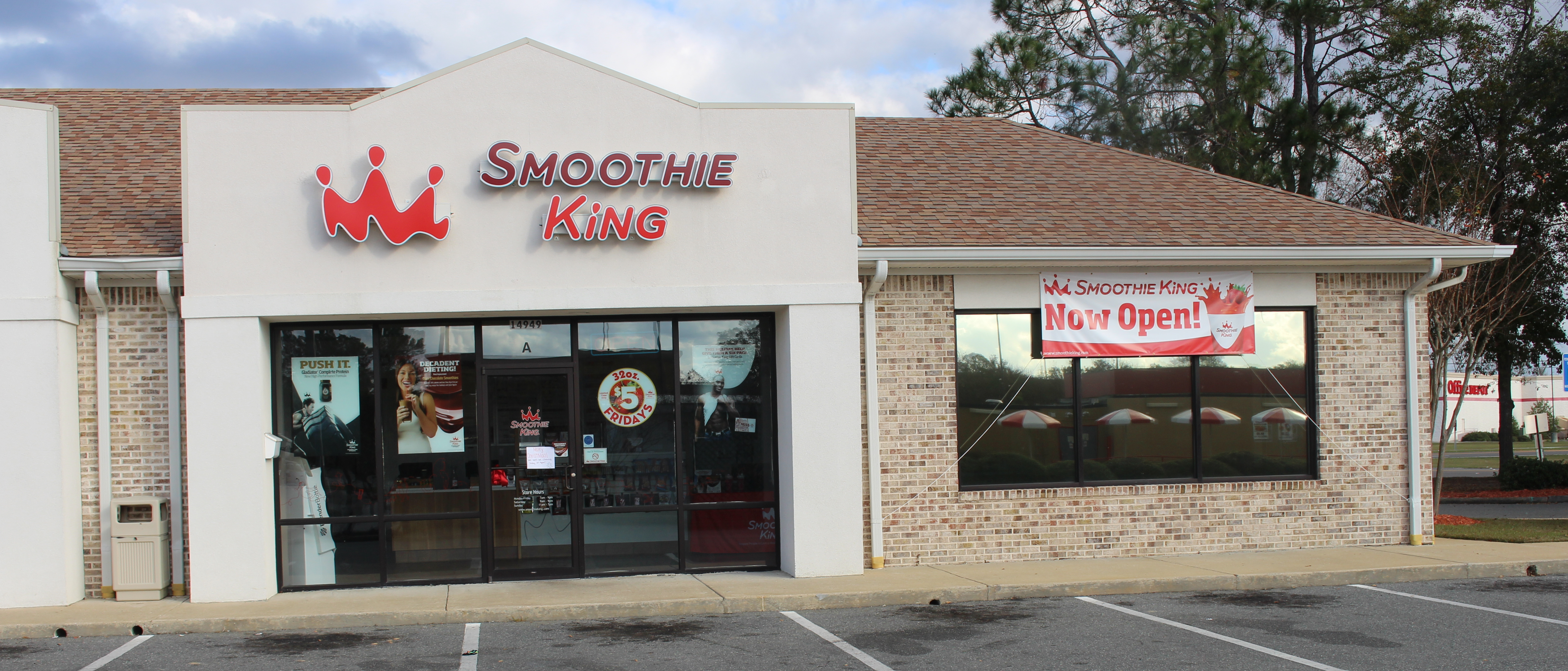 Smoothie King, Thomasville, Thomas County, Georgia